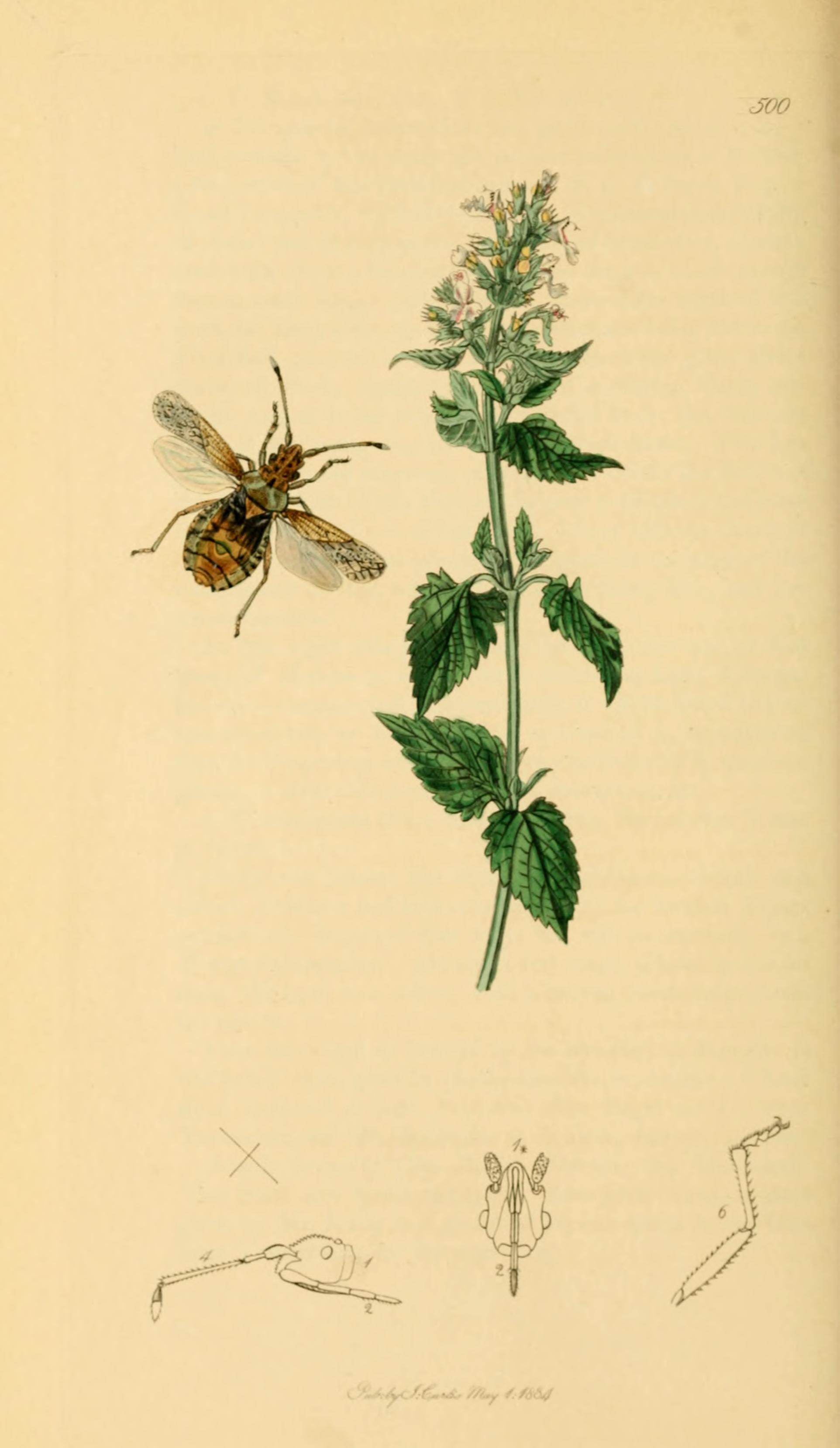 John Curtis British Entomology (1824-1840) Folio 500 Atractus literatus synonym of Arenocoris fallenii (Lettered Coreus). The plant is Nepeta cataria (Cat-Mint)